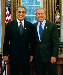 Zalmay Khalilzad with President Bush (courtesy of )